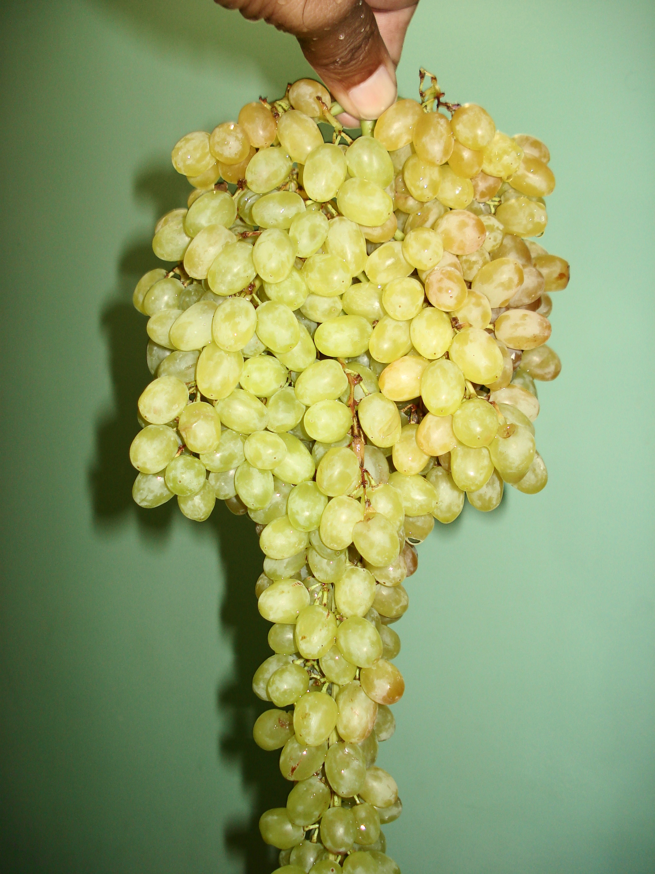 Grapes are called Angoor in urdu, Most popular variety is Sunder Khawani from Quetta /Chamman Pakistan